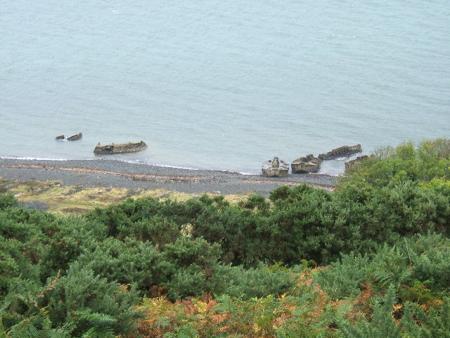 WWII Concrete barges, north of Cairnryan